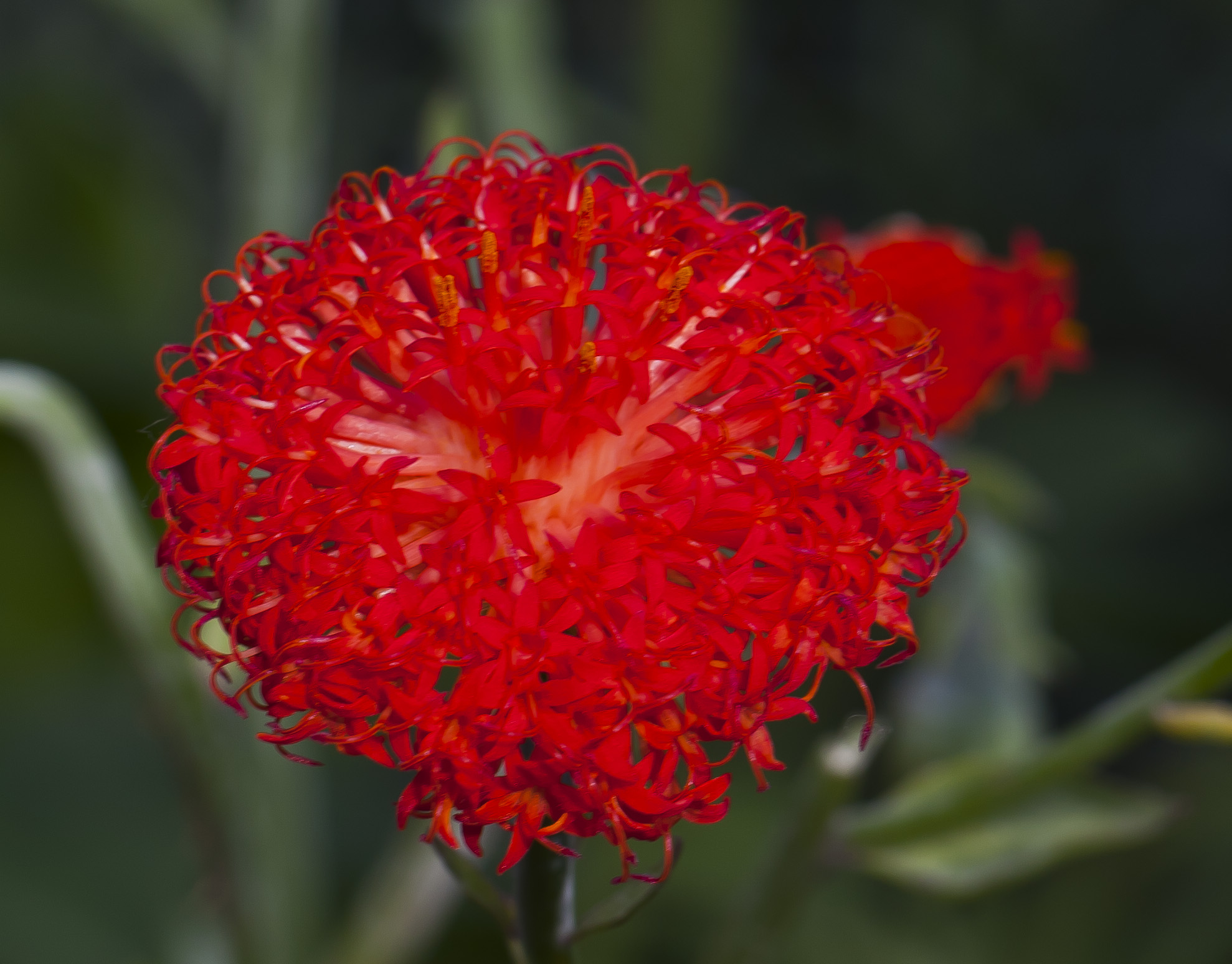 Kleinia abyssinica, Tallinn Botanic Garden, Estonia